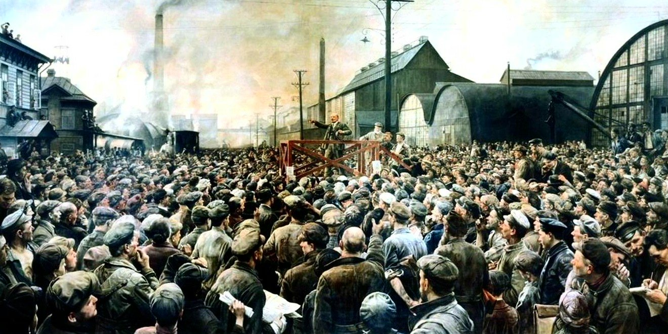 Lenin at Putilov factory at May 1917